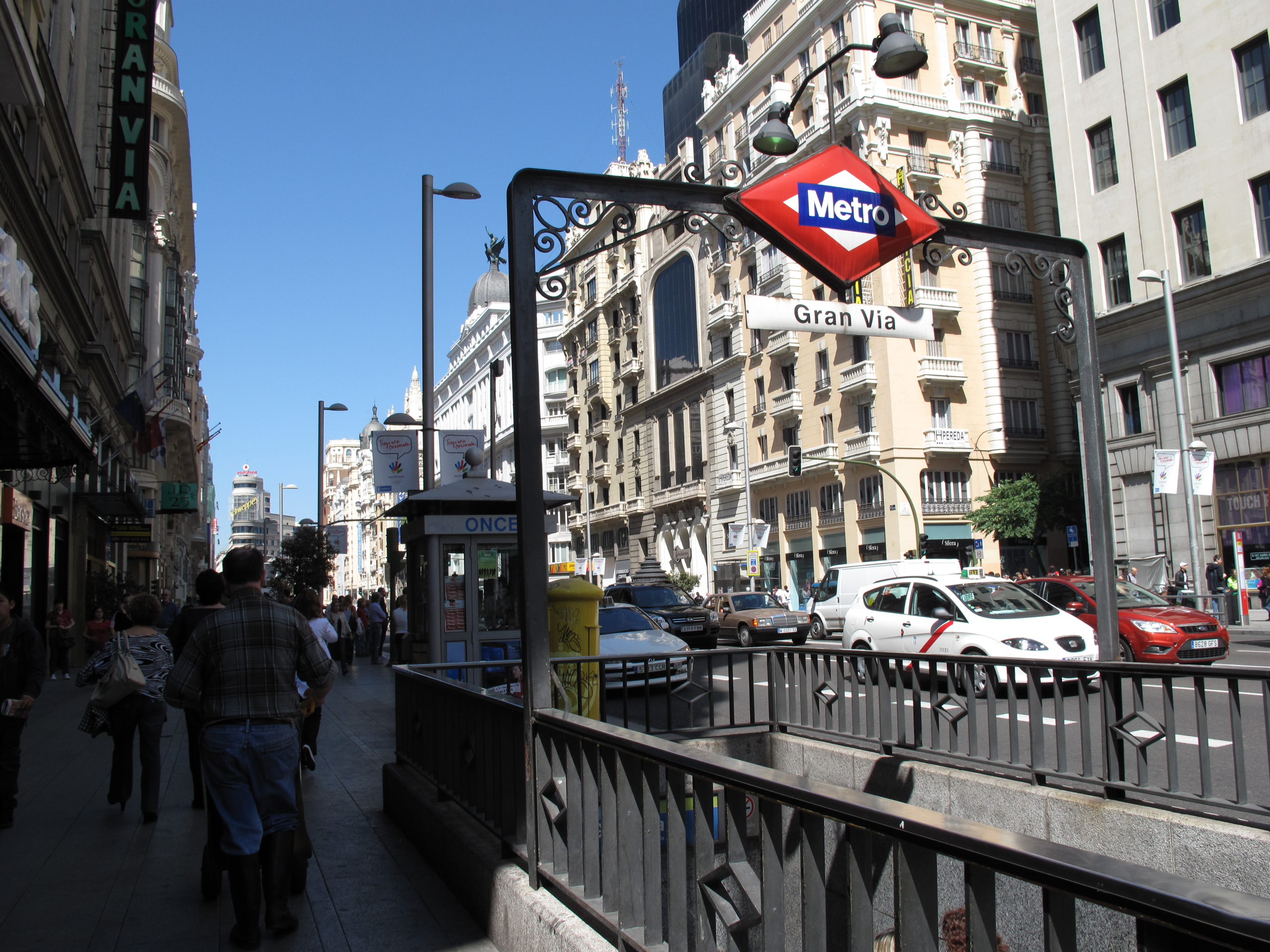 Entrance of Gran Vía metro station in Madrid (Spain).